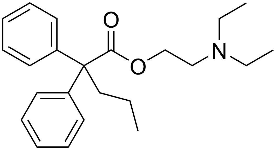 Chemical structure of proadifen